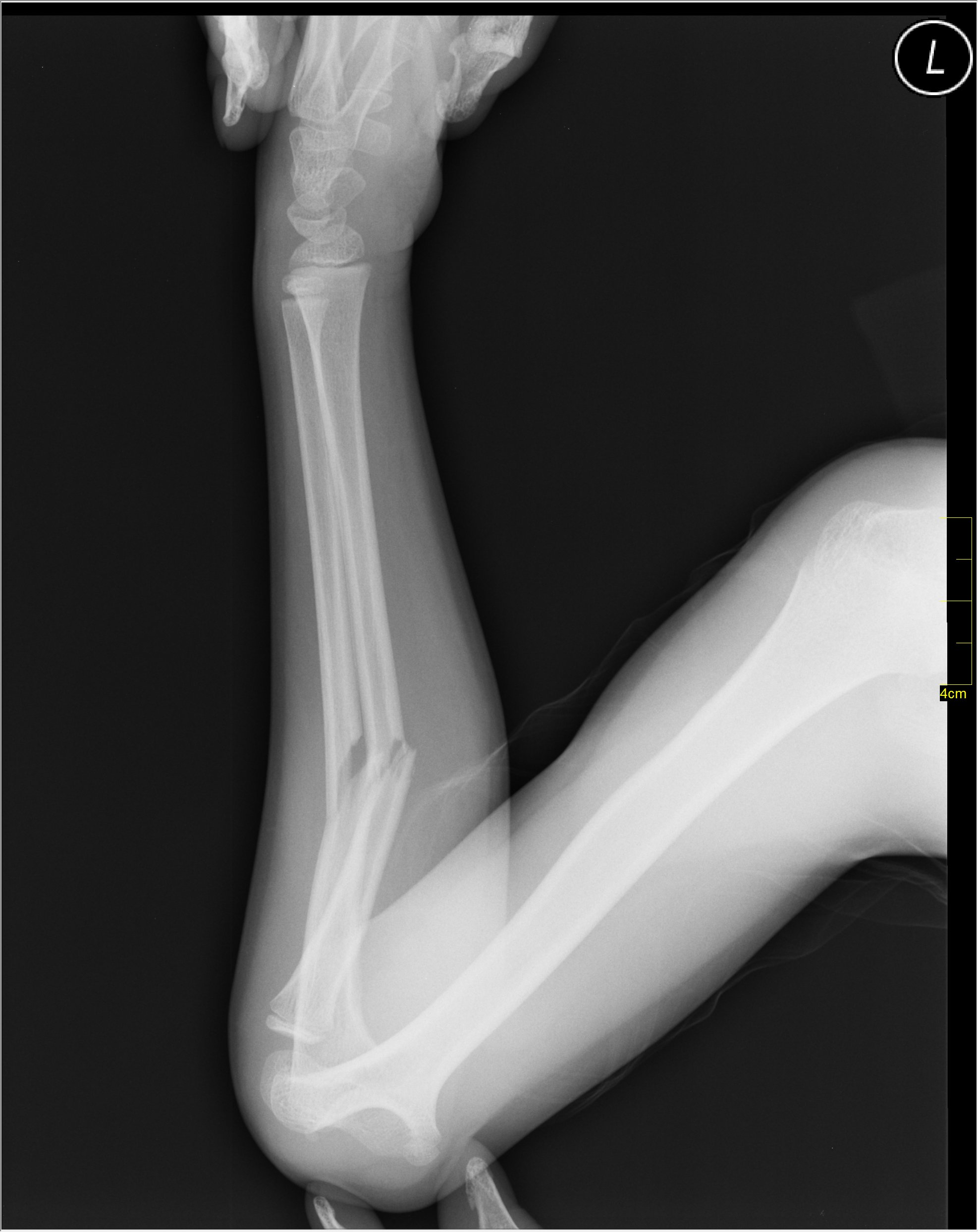 Roentgenogram or Medical X-ray image. May not be to scale.